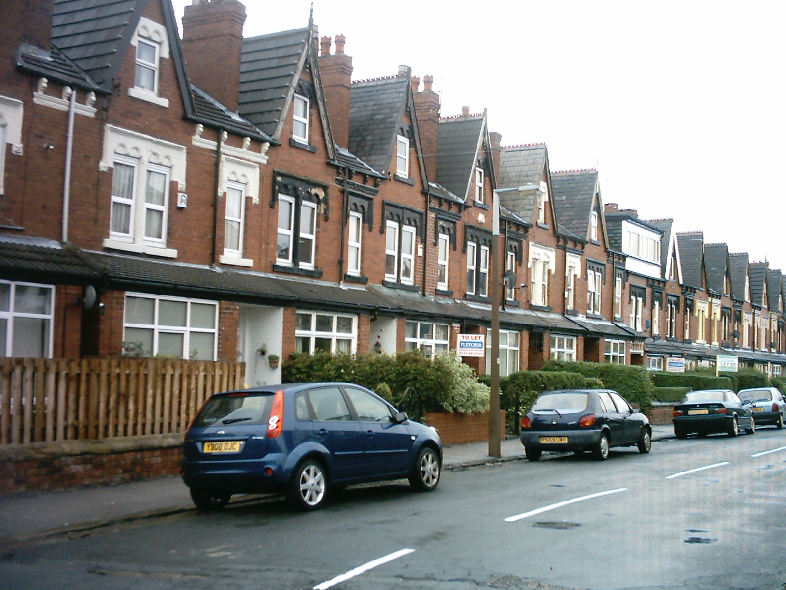 Housing in Roundhay (Victorian Terracing)